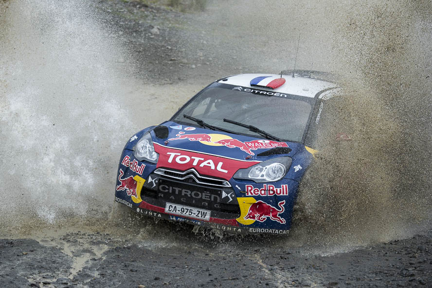 Wales Rally Great Britain 2012 Citroen DS3 WRC,Citroen Total WRT,Citroen Total World Rally Team,Daniel Elena,Hafren Sweet Lamb 2,Motorsport,Rally,Rallye,SS5,Sebastien Loeb,WP5,WRC,Wales Rally GB